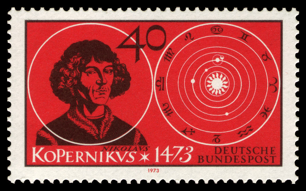 500 day of birth of Nicolaus Copernicus (1473–1543)